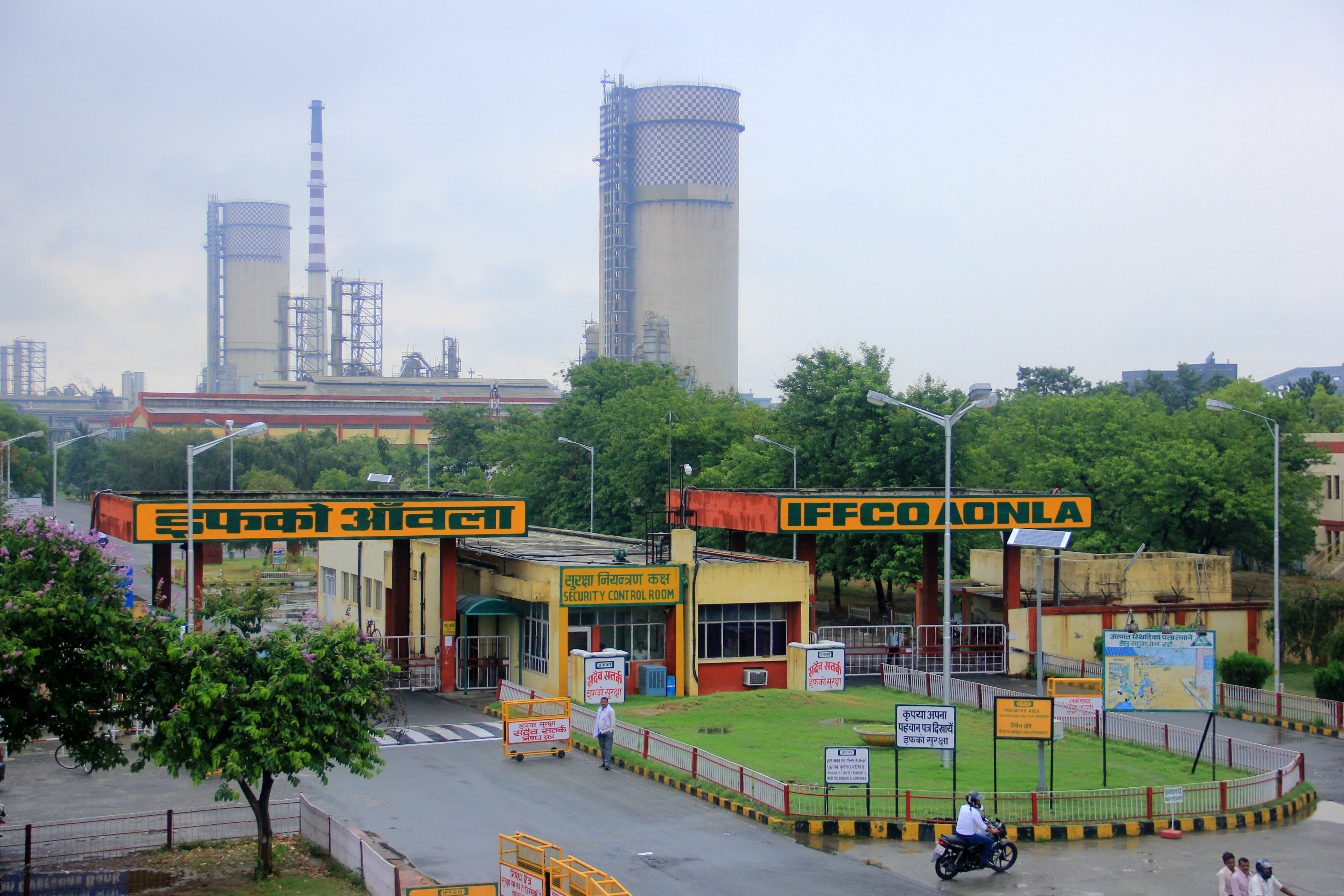 The IFFCO plat at Aonla, Uttar Pradesh